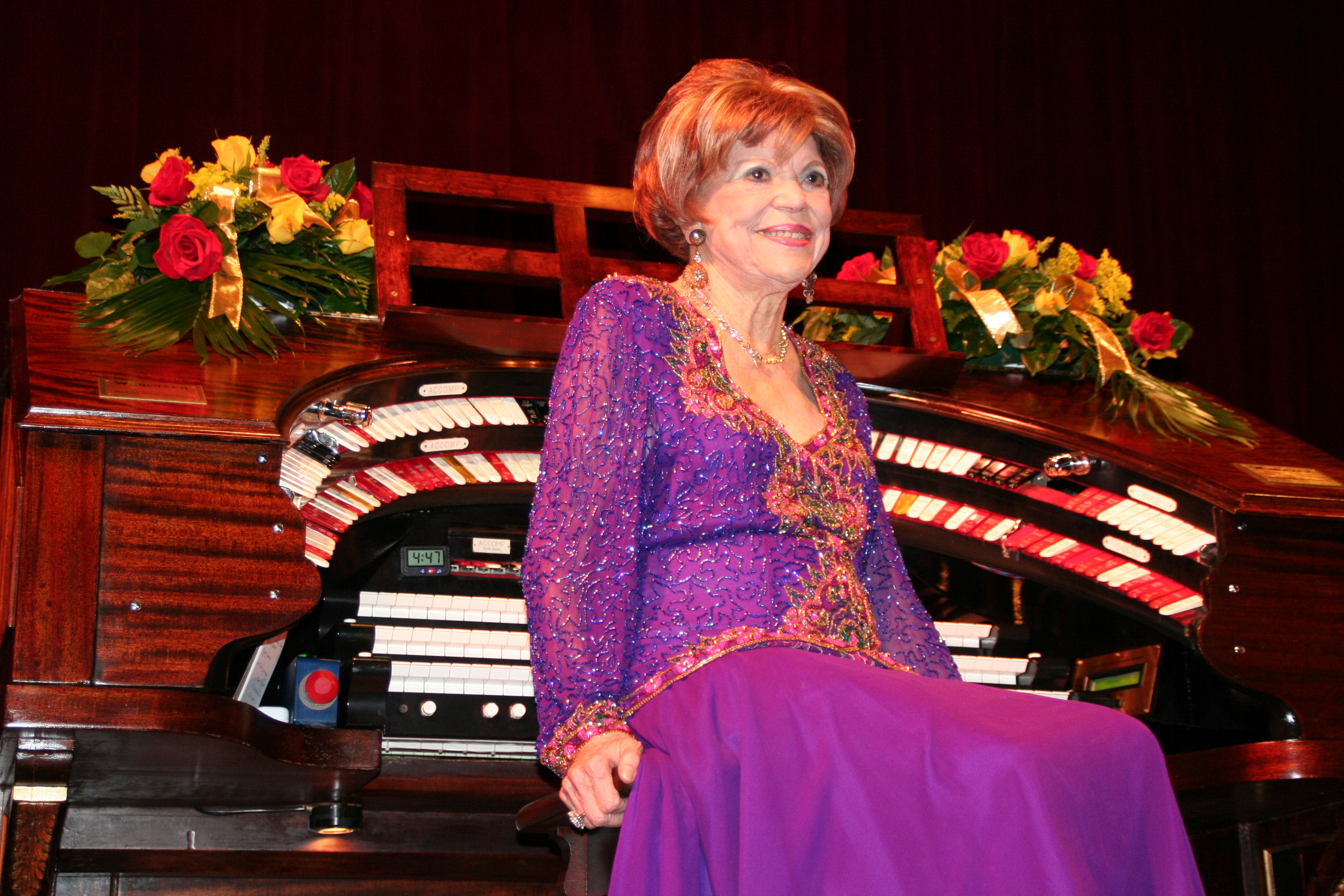 Rosa Rio at the Tampa Theatre Wurlitzer following her performance for the silent film "Beyond the Rocks", May 2006.